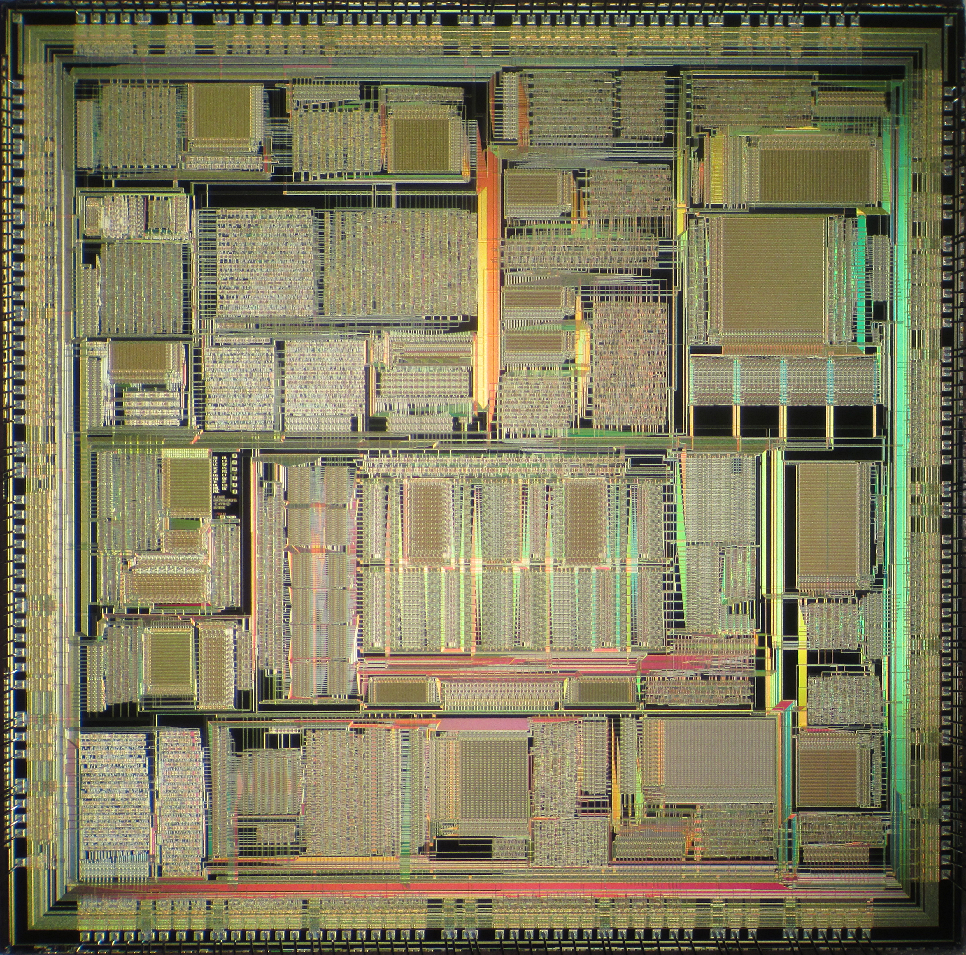 Die shot of C-Cube CL950 MPEG-1 decoder.